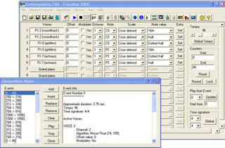 FractMus screenshot